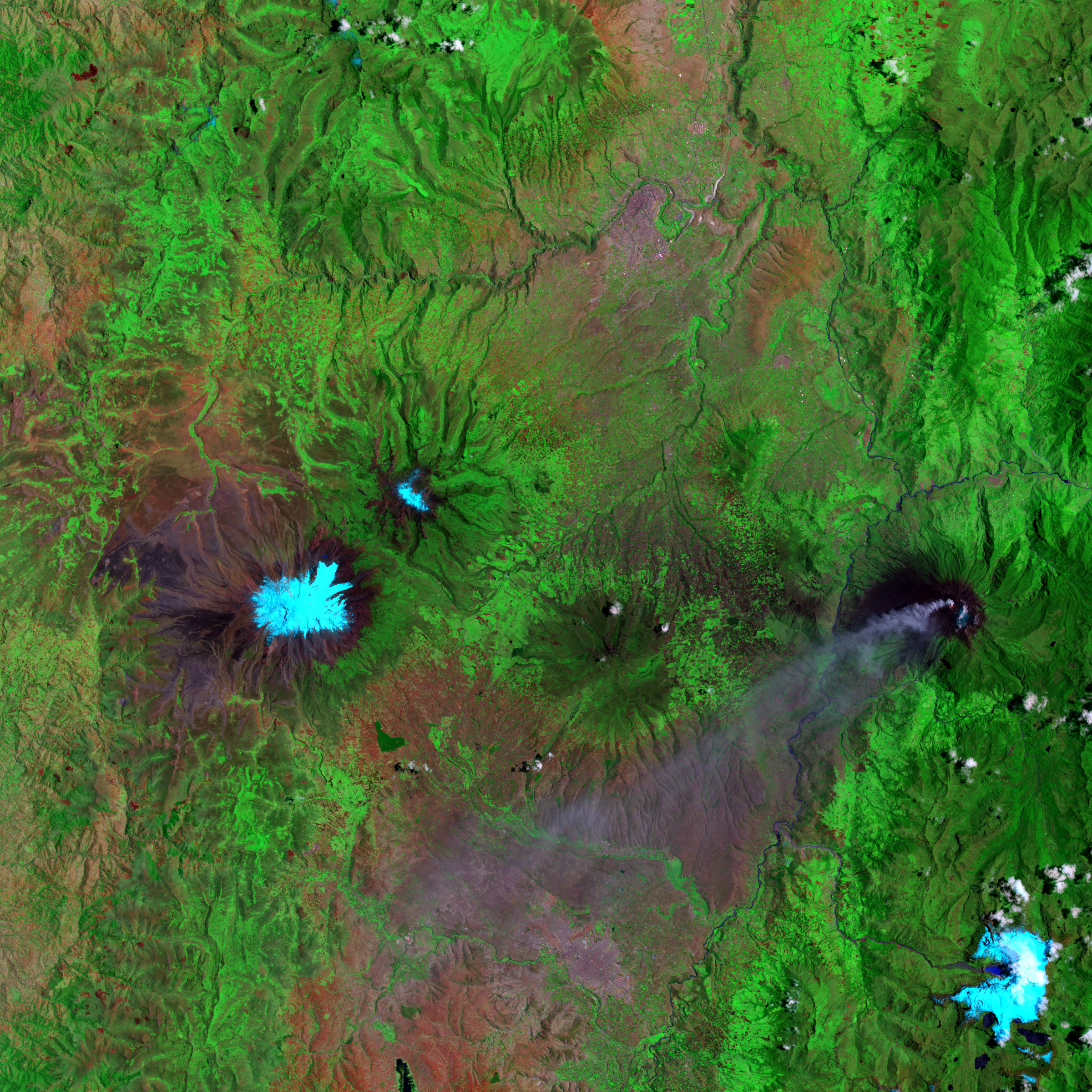 False-color satellite image of Chimborazo (center, left), Carihuairazo (10km northeast of Chimborazo), Tungurahua (center, right with ash plume) and El Altar (bottom, right), Ecuador. Pale blue indicates snow/ice cover, bright green indicates lush vegetation, and red indicates sparser vegetation. Tungurahua’s volcanic ash plume appears in lavender. Image width is 78km, image direction is top to North